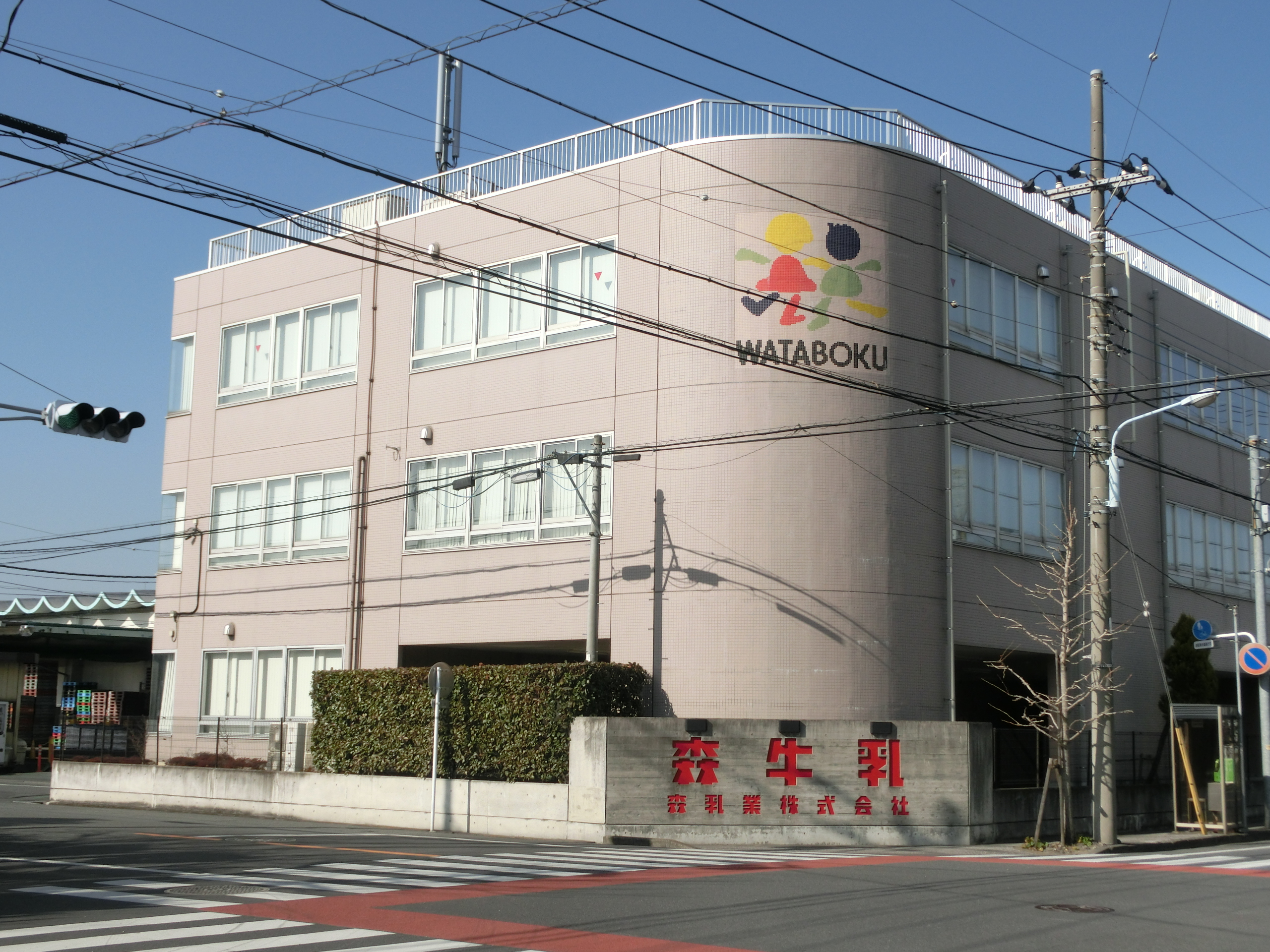 Mori Milk Head Office